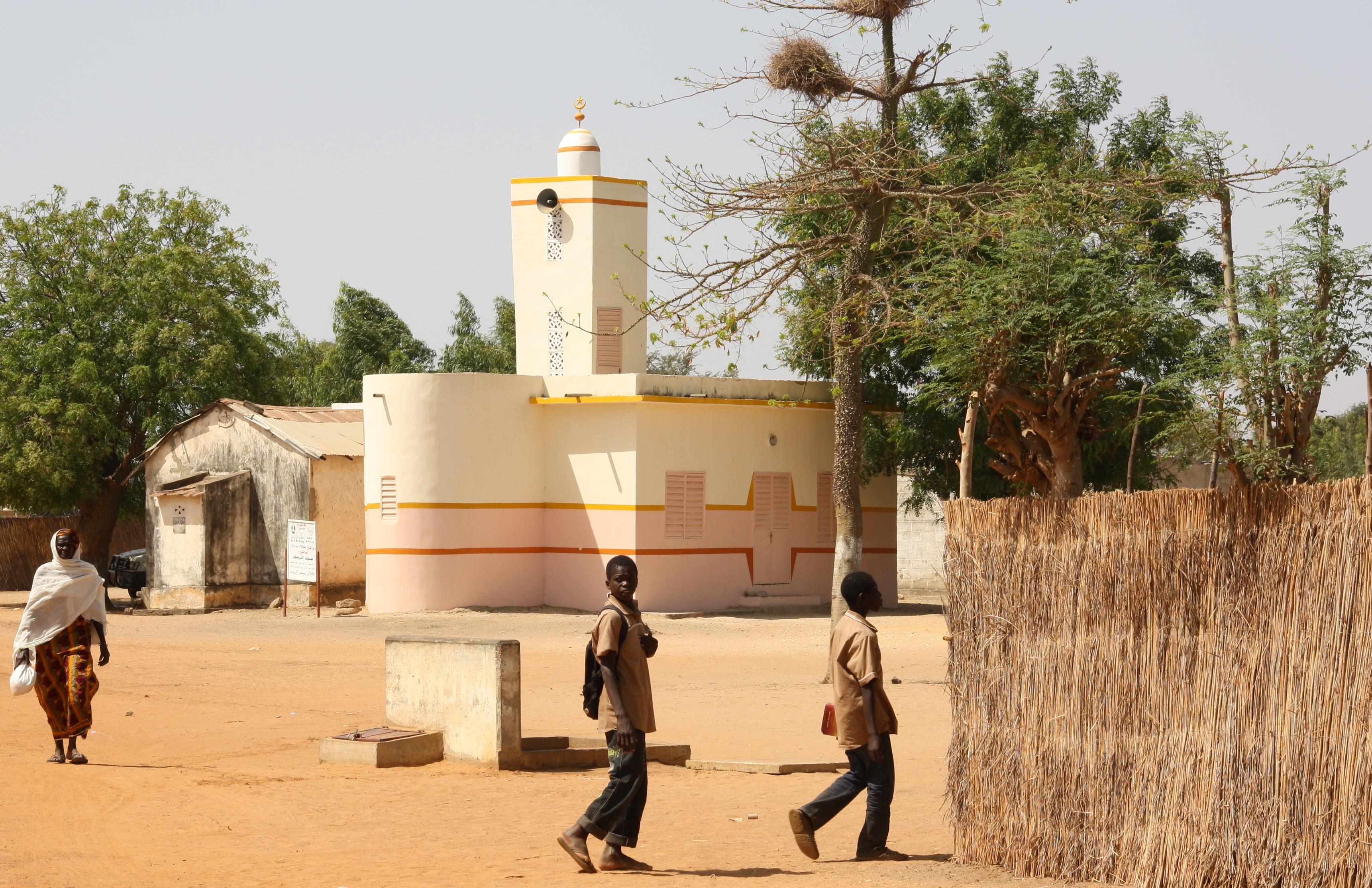 Keur Simbara, Senegal, which abandoned female genital mutilation in 1998, after a three-year community empowerment programme by Tostan